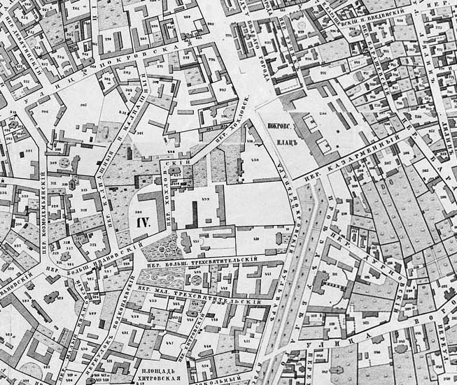 Moscow, Russia, 1852. Map of Pokrovsky Boulevard and neighborhoods.